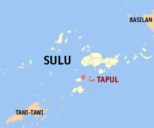 Map of the Sulu showing the location of Tapul